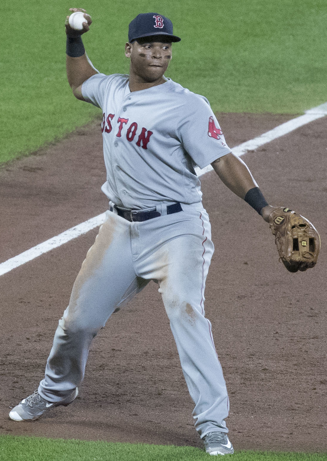 Red Sox at Orioles 9/18/17